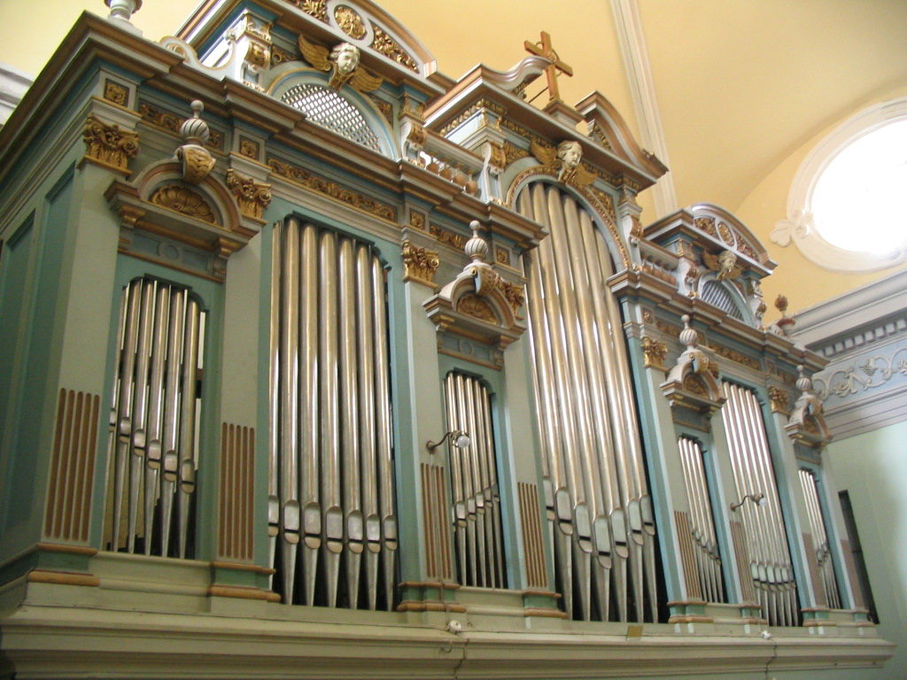 Organs in the St. Stjepan church in Stari Grad, Hvar, Croatia